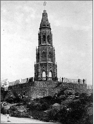 The Mutiny Memorial in Delhi is a monument to British officers. In panels around the base, there is a record of 2,163 officers and men who were killed, wounded or went missing between 8 June and 7 September 1857. It was taken in 1870 by an unknown photographer.